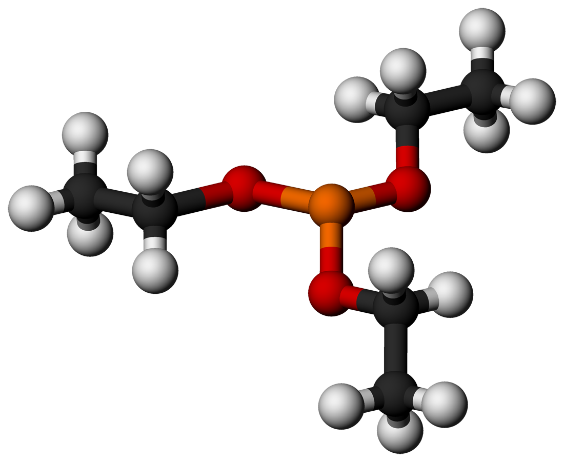 Triethyl phosphite 3D balls